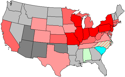 Summary of party change of U.S. house seats in the 1894 House election. Stripes indicate a tie between the gains of two or more parties. Legend: 6+ Democratic seat pickup 3-5 Democratic seat pickup 1-2 Democratic seat pickup 1-2 Republican seat pickup 3-5 Republican seat pickup 6+ Republican seat pickup 1-2 Populist seat pickup 3-5 Populist seat pickup Note: years ending in 2 may have inconsistent results due to redistricting.